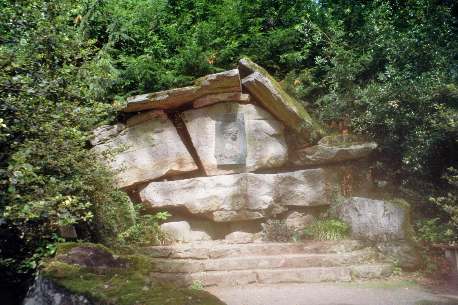 Monument situated on the "Altenberg" in Bad Kissingen (Bavaria, Germany) depicting Empress Elisabeth of Bavaria